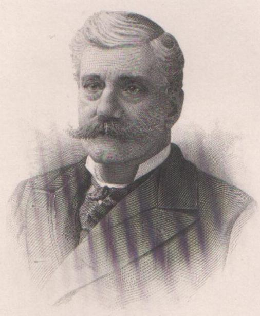 John N. W. Rumple (Iowa Congressman)